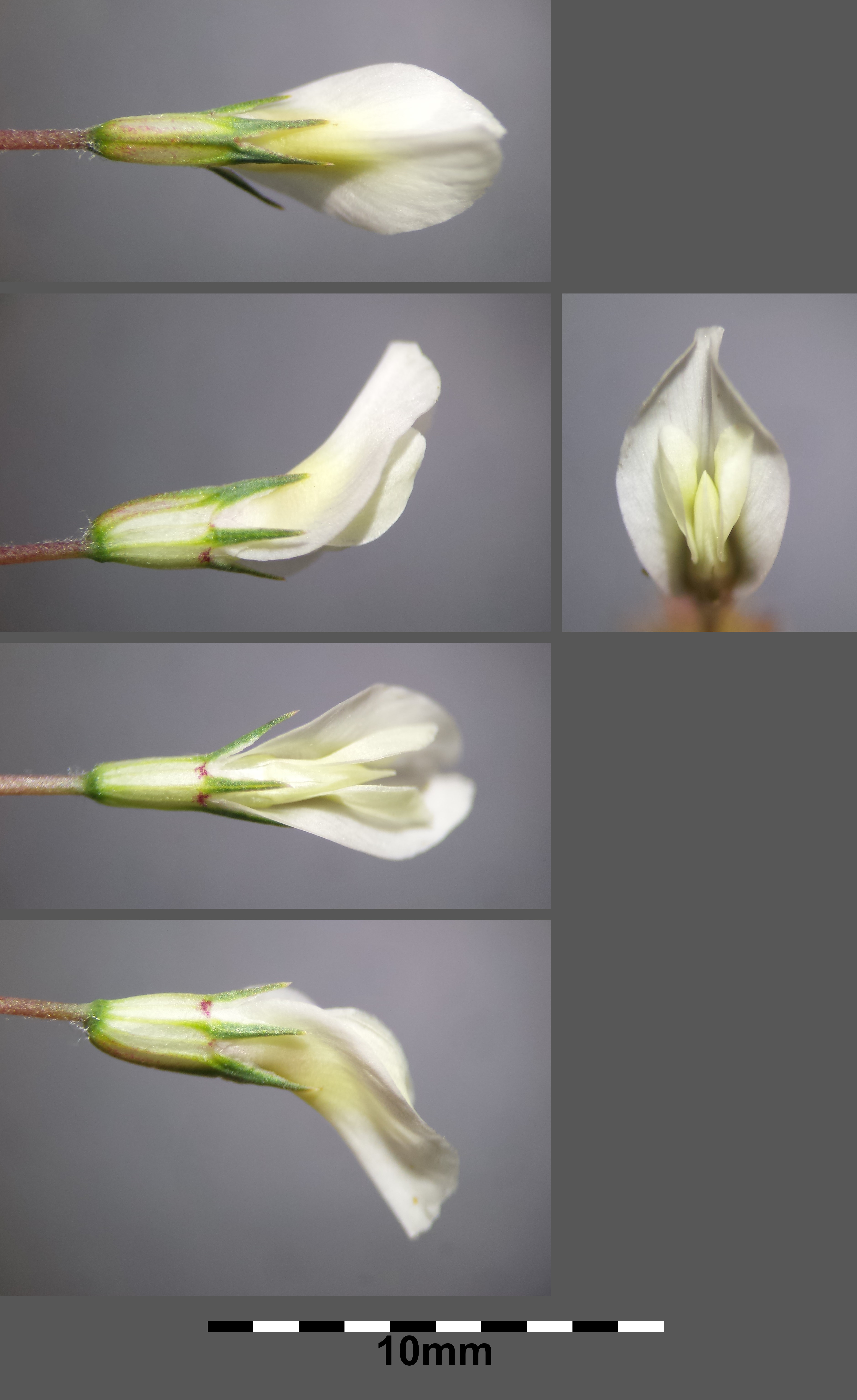 Flower Taxonym: Trifolium repens (subsp. repens) ss Fischer et al. EfÖLS 2008 ISBN 978-3-85474-187-9 Location: Neue Donau, Vienna-Floridsdorf - ca. 160 m a.s.l. Habitat: dry meadows